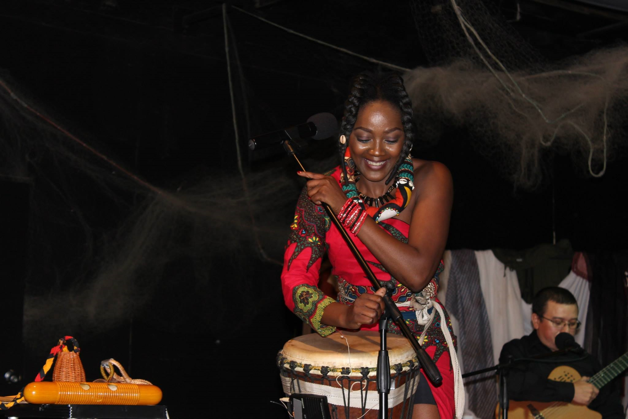 This is my personal photo of Vivalda Dula performing live at Elinga Teatro in Angola.